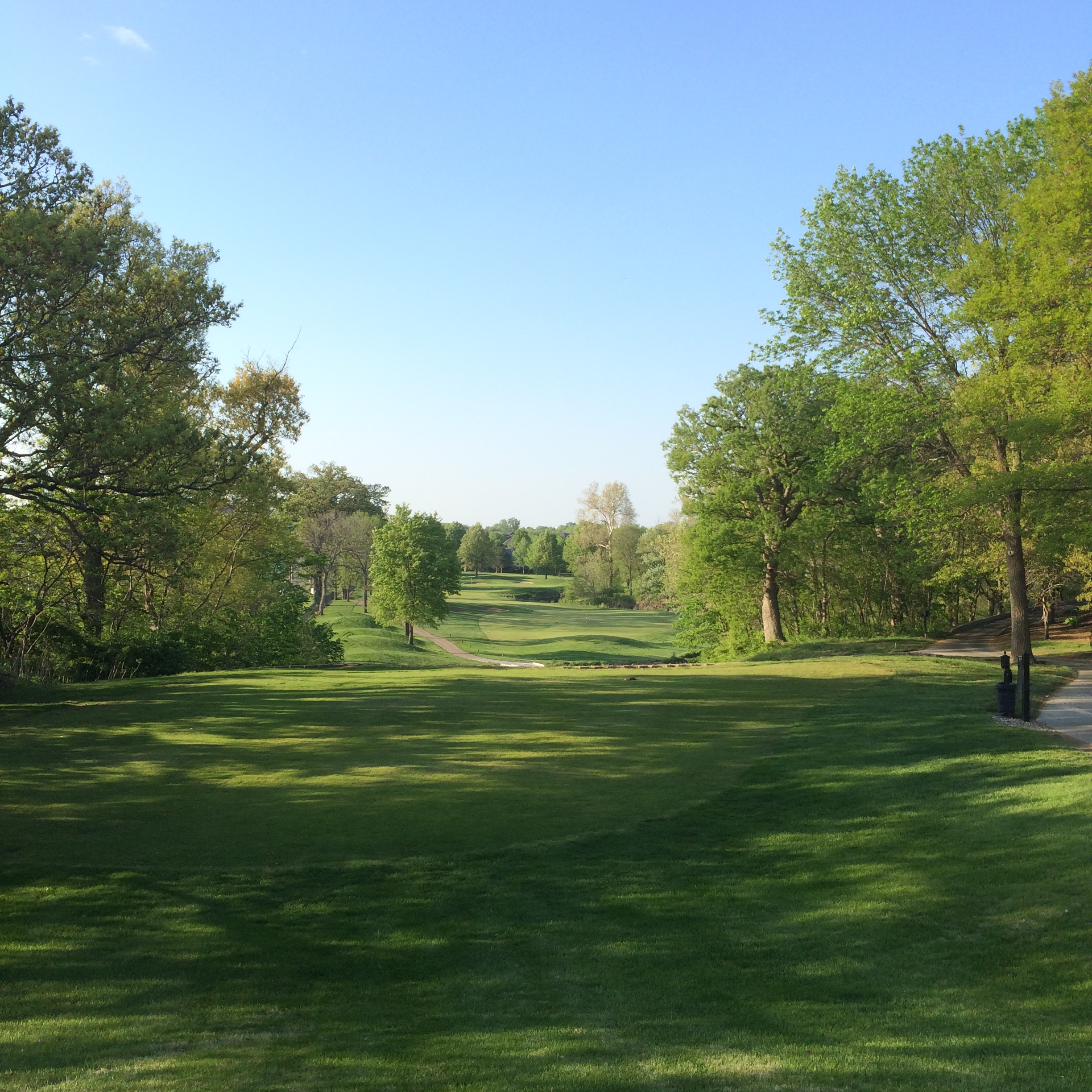 Hole #10 at Deer Creek Golf Club, Overland Park,, Johnson County, Kansas, USA